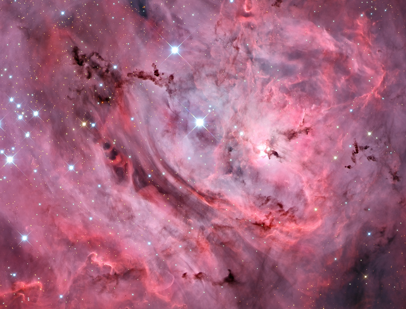 Optics 32-inch Schulman Telescope (RCOS) Camera SBIG STX16803 CCD Camera Filters Astrodon Gen II Dates May - June 2015 Location Mount Lemmon SkyCenter Exposure RGB = 4:4:4 Hours Acquisition Astronomer Control Panel (ACP), Maxim DL/CCD (Cyanogen), FlatMan XL (Alnitak) Processing CCDStack, Photoshop CC, PixInsight Guest Astronomers Participants of "Astrophotography with Adam" May 22nd, 2015 Credit Line & Copyright Adam Block/Mount Lemmon SkyCenter/University of Arizona